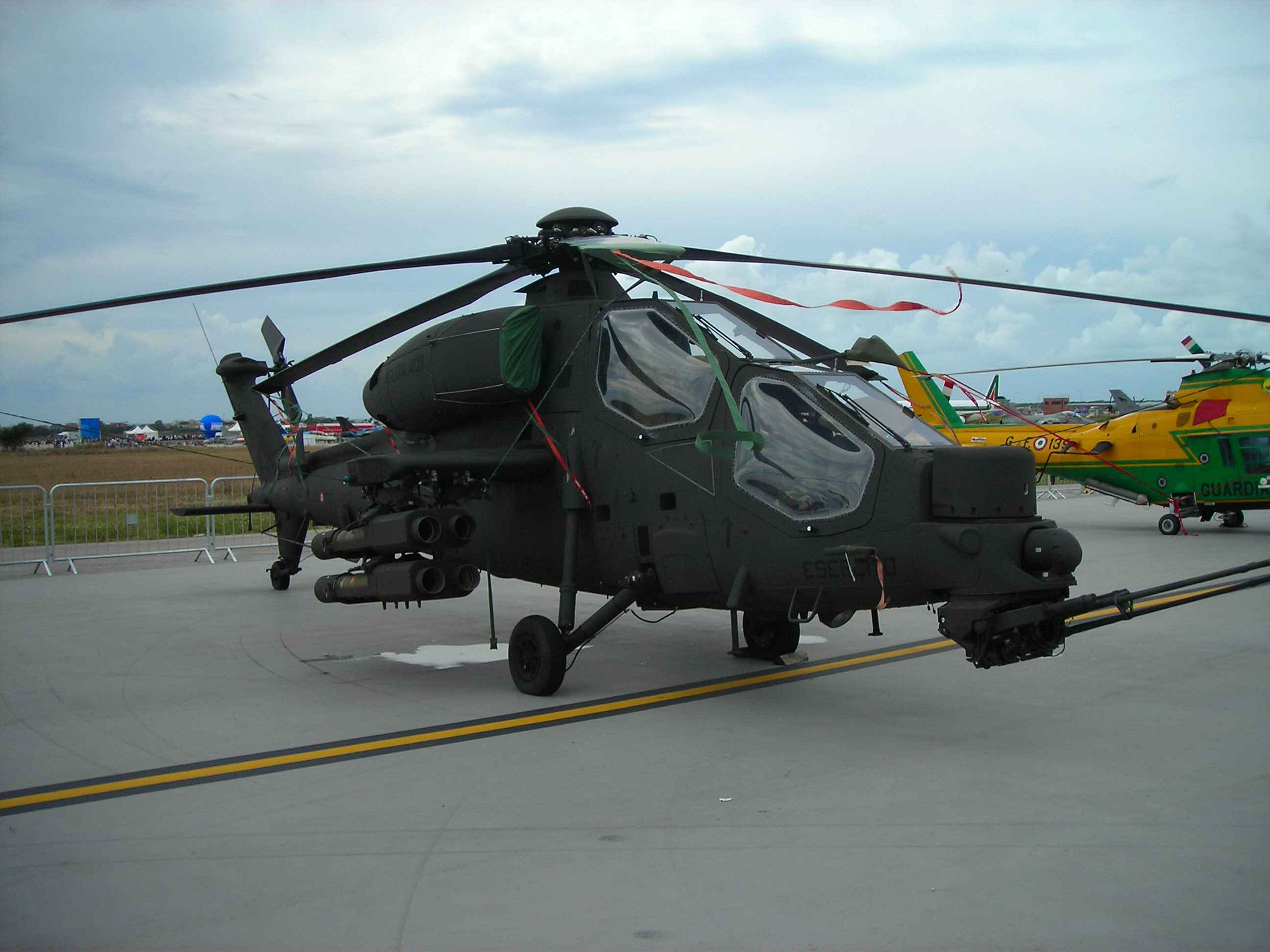 Agusta A129 Mangusta, Italian attack helicopter. Picture taken during "Giornata Azzurra" 2006 (Italian Air Force airshow) at Pratica di Mare AFB, Italy.